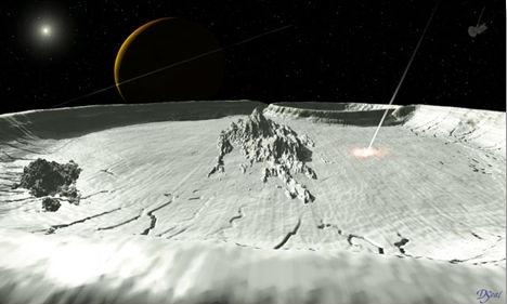 This computer rendering shows the surface of Rhea, Saturn's second largest satellite behind Titan. Like Dione and Iapetus, there is a noticeable difference between the two hemispheres of the satellite. Rhea is a densely cratered satellite, and this image shows two of the most prominent craters, Izanagi (the larger) and Izanami (the smaller), which partially overlap. These craters are well into the southern hemisphere. Saturn is seen on the horizon, and a small meteor is seen striking the surface inside the Izanagi crater.